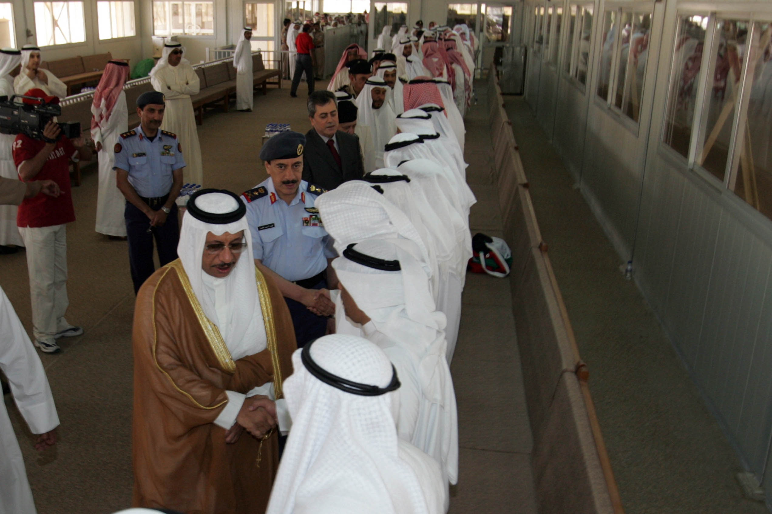 June 20, 2006 the ceremony of Fayeq Abdul –Jaleel at the Sulaibikat cemetery in Kuwait